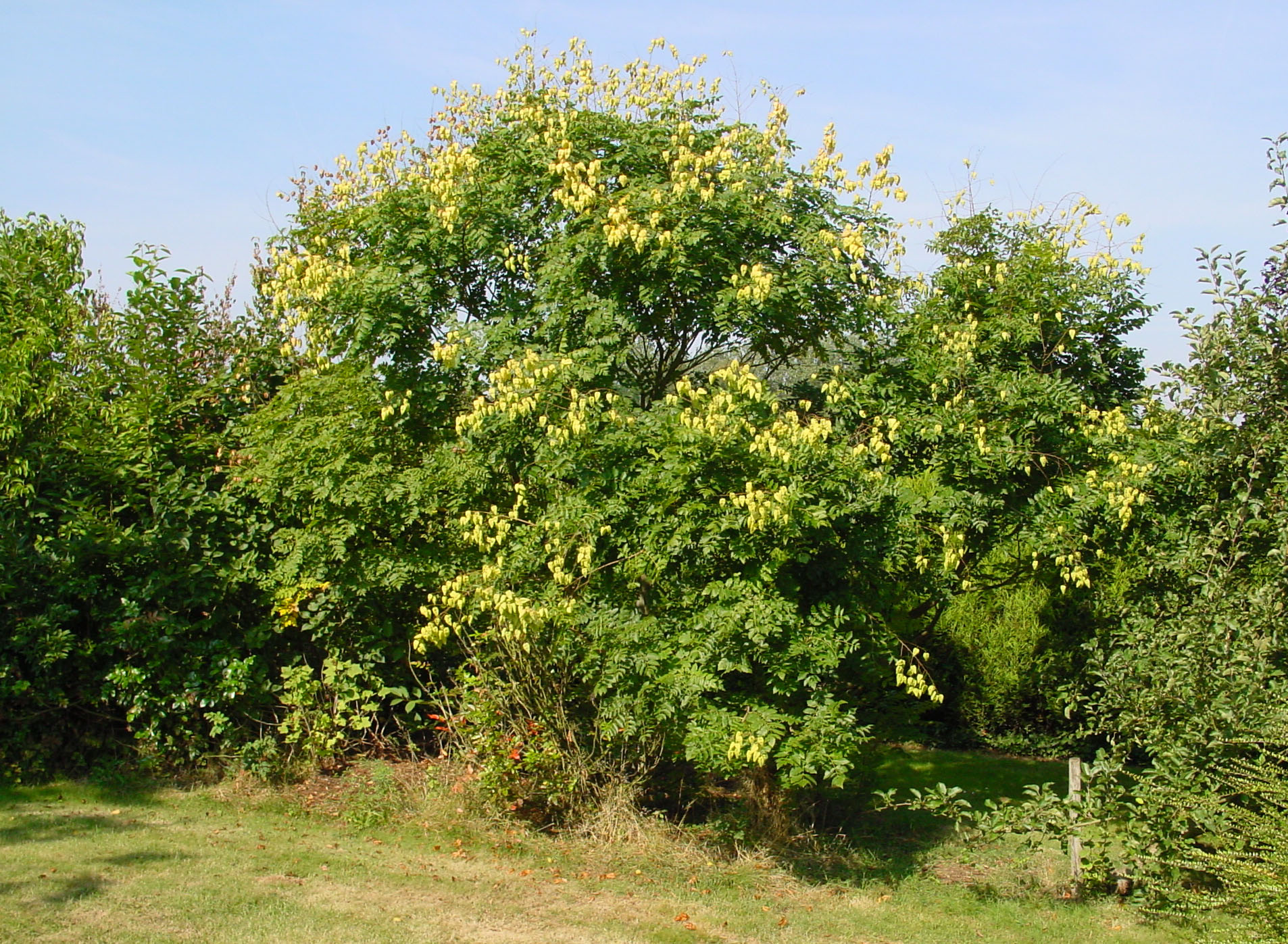 Goldenrain tree, Pride of India, or China tree